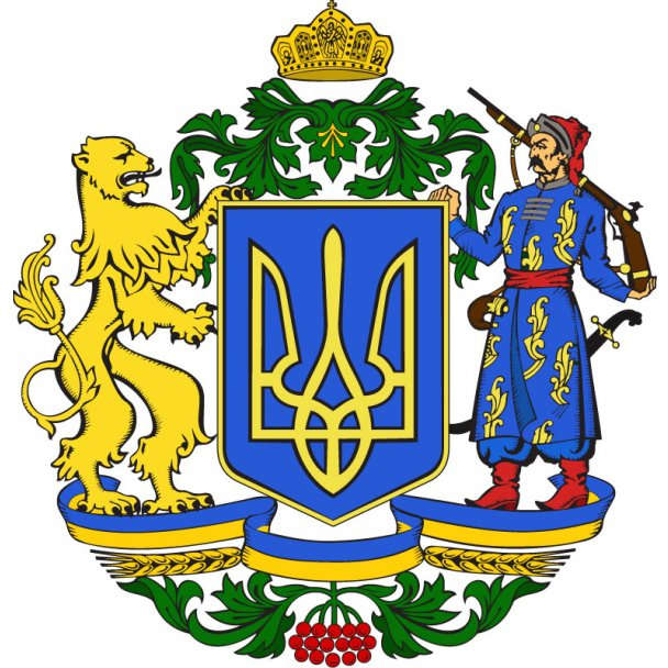 УИ21123